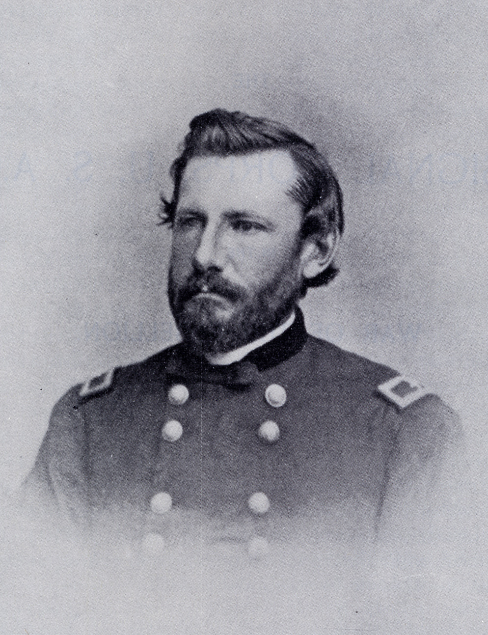 Albert J. Myer, Scanned from book in public domain: Brown, J. Willard, The Signal Corps, U.S.A. in the War of the Rebellion, U.S. Veteran Signal Corps Association, 1896.